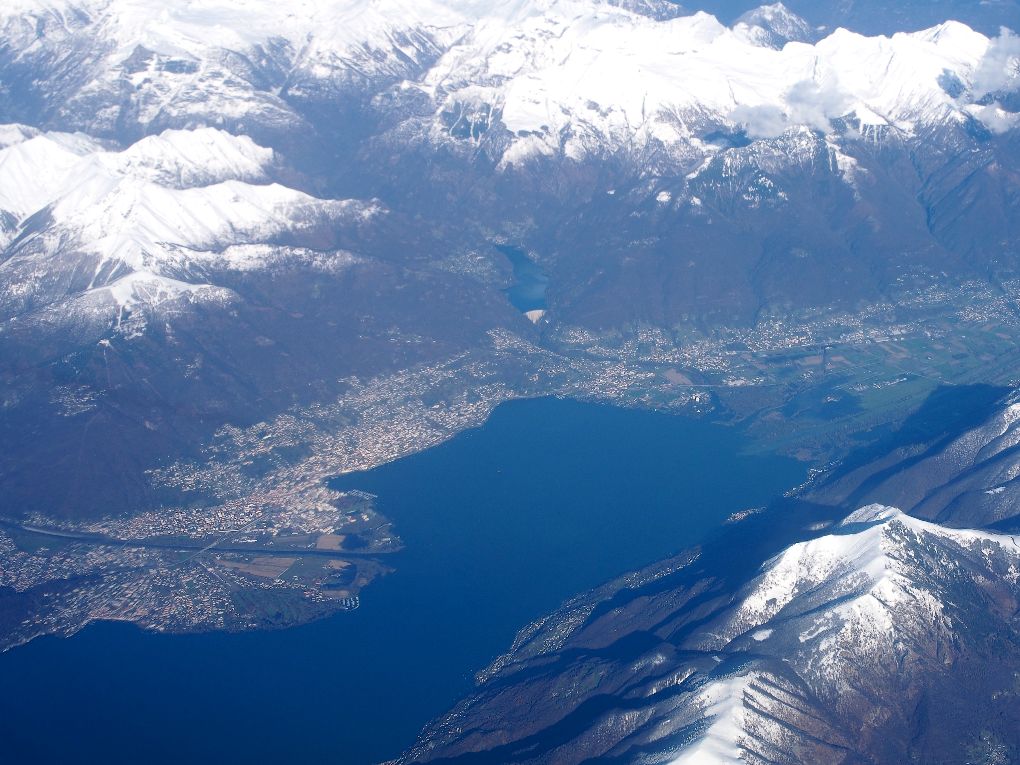 Delta of the Maggia river in Ticino, Switzerland. Lago Maggiore, a view to the north. The communality of Ascona is on the left side, south of the Maggia. The dam with lake in the center of the picture is the Verzasca dam.